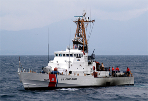 Original caption: “USCGC Grand Isle (WPB-1338) conducts training operations offshore from Souda Bay, Crete, on April 01, 2003, in support of Operation Enduring Freedom. Official USCG photo by PA1 John Gaffney. ”